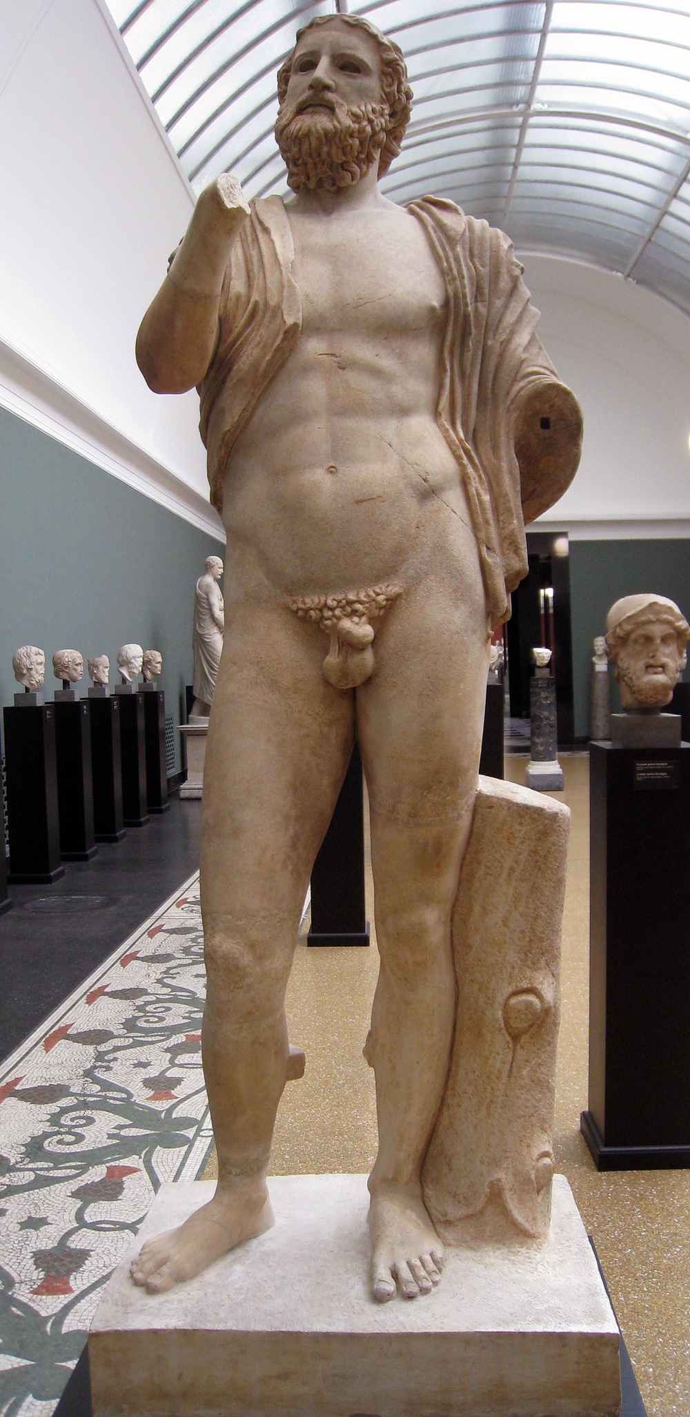 Marble statue of Anacreon from Monte Calvo in Italy. 2nd century AD. From the collection of the Ny Carlsberg Glyptotek. Item number IN 491.